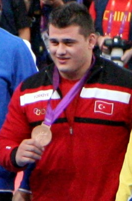 Medalists at the Men's 120 kg Greco Roman Wrestling.jpg retouched picture